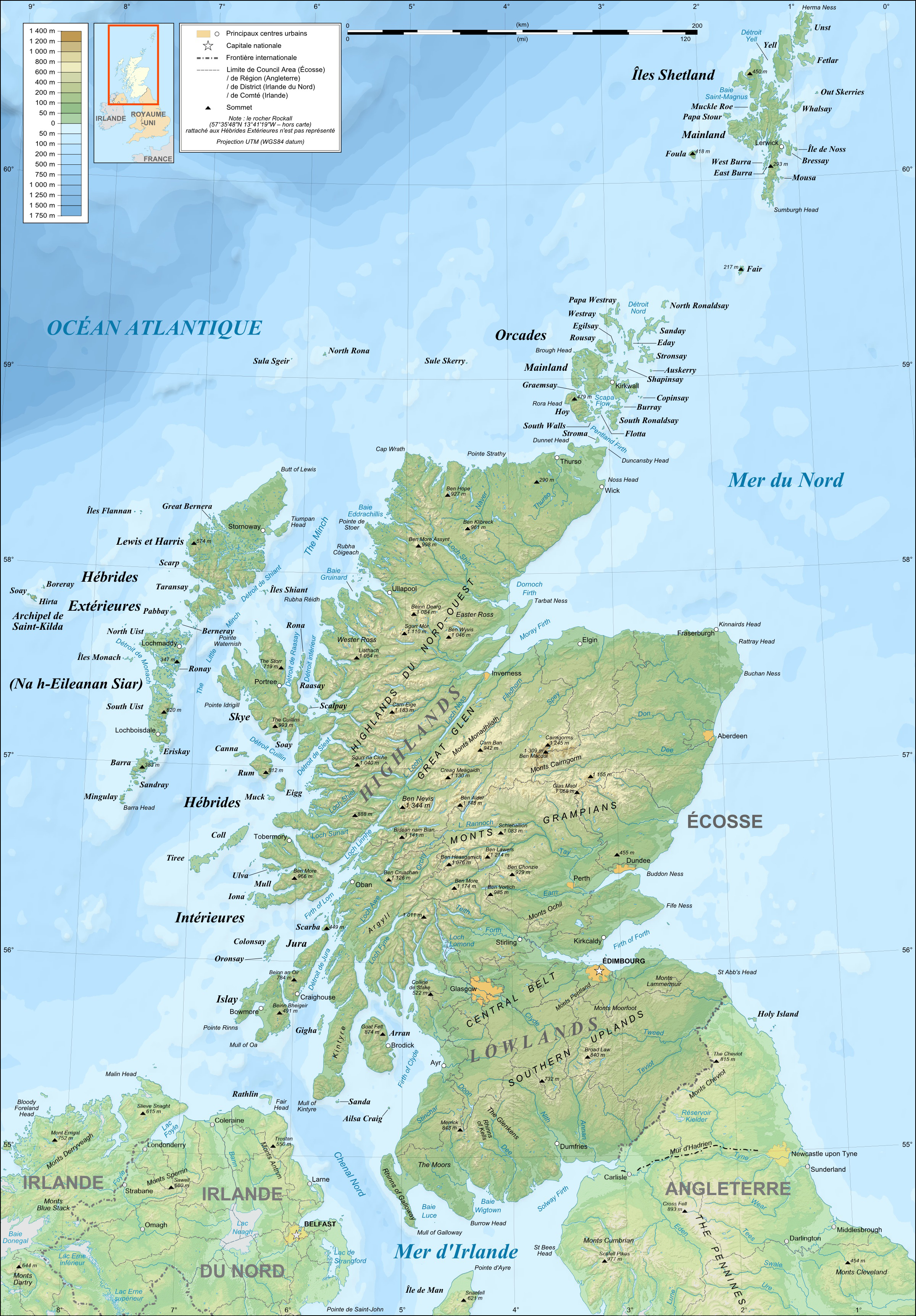 Topographic map of Scotland in French. Note: The background map is a raster image embedded in the SVG file.